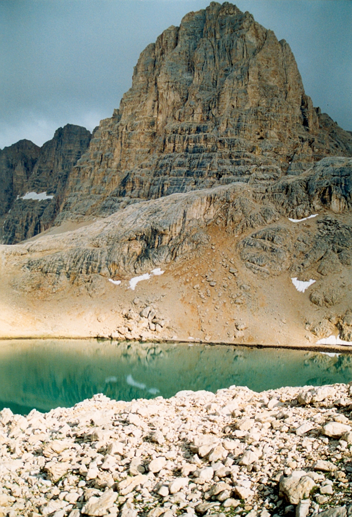 Direktaş, Yedi Göller (Seven Lakes), Ala Dağlar, Taurus Mountains, Turkey.